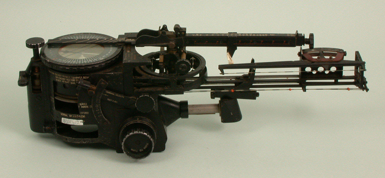 This is an example of the Course Setting Bomb Sight Mk. IXA, a model used immediately prior to and during World War II. This example is folded down for stowage, with the "height bar" rotated forward over the drift bar on the left, and the "wind bar" rotated to lie on top of the height bar. The "auxiliary drift bar" has been folded to the right side of the drift bar, it is the object with the round holes punched in it. this example has several cutaway portions on the left to demonstrate its internal mechanisms. On the left of the image, the compass has been cut open to show two horizontal gears. These are turned using the knob on the extreme left. Pushing down on the knob allows its own gear, visible in the separate cutaway, to engage the larger gears below the compass. One of these is connected to a rotating shaft lying just below the lower (brighter) gear. This shaft runs to the right through the silver coloured tube in the center of the image. Here it turns a vertical gear and shaft in the black housing at the right end of the tube, which in turn causes the black bar on top of the housing to rotate to the same angle. This mechanism allows the bomb aimer to adjust the wind direction using the knob, which will turn both the indicator in the compass, the black and white arrow, as well as the wind bar that carries out the actual calculation. The two remaining major inputs to the calculation are the air and wind speed. Airspeed is dialled in using the large knob at the extreme lower center of the image. This turns a pinion that pushes against the rack, visible on the lower section of the silver coloured tube. Higher airspeeds cause the wind bar to be moved to the right. The wind speed is dialled in using the small black knob on the left side of the wind bar, which has white numbers on it for different speeds.